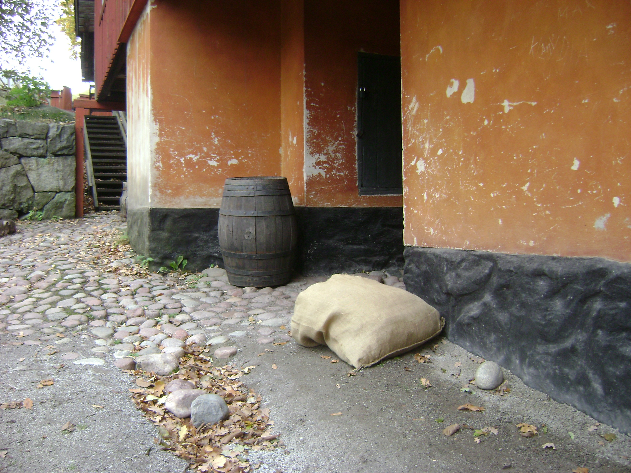 Sweden. Stockholm. Djurgården. Open air museum